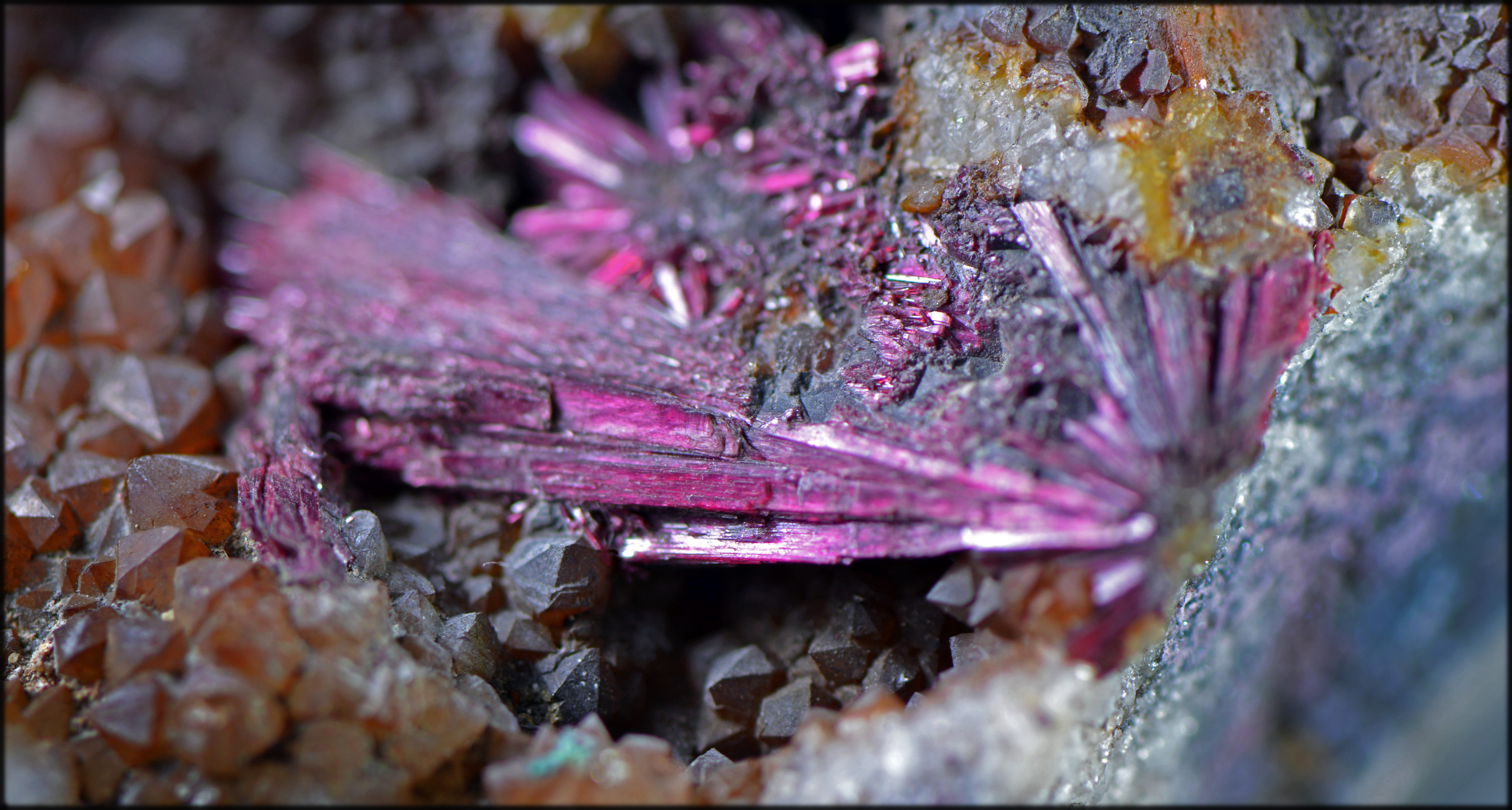 Erythrite